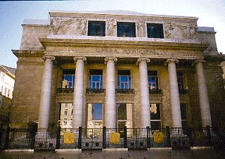 Photo taken by myself of the Marseilles Opera House, 2004. Mrlopez2681 15:26, 21 December 2006 (UTC)